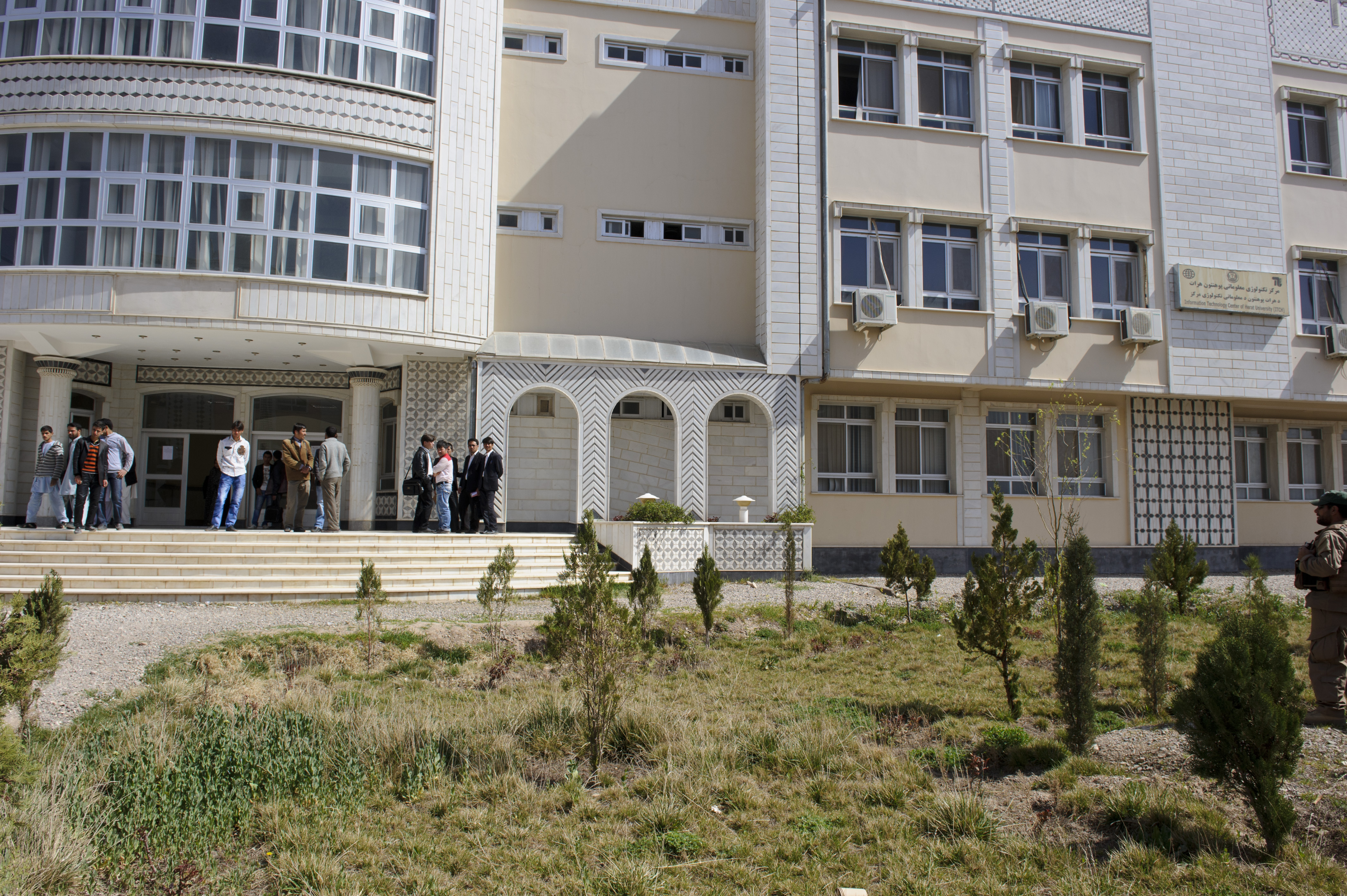 The exterior of the information technology and engineering facility at Herat University. The South District has an ongoing project to provide texts and equipment to improve engineering instruction at the university.